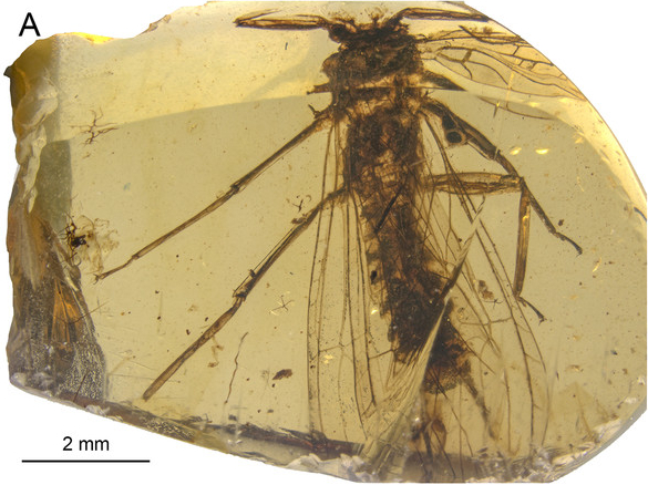 Lapisperla keithrichardsi, holotype SMNS BU-313, photographs. (A) Dorsal view.